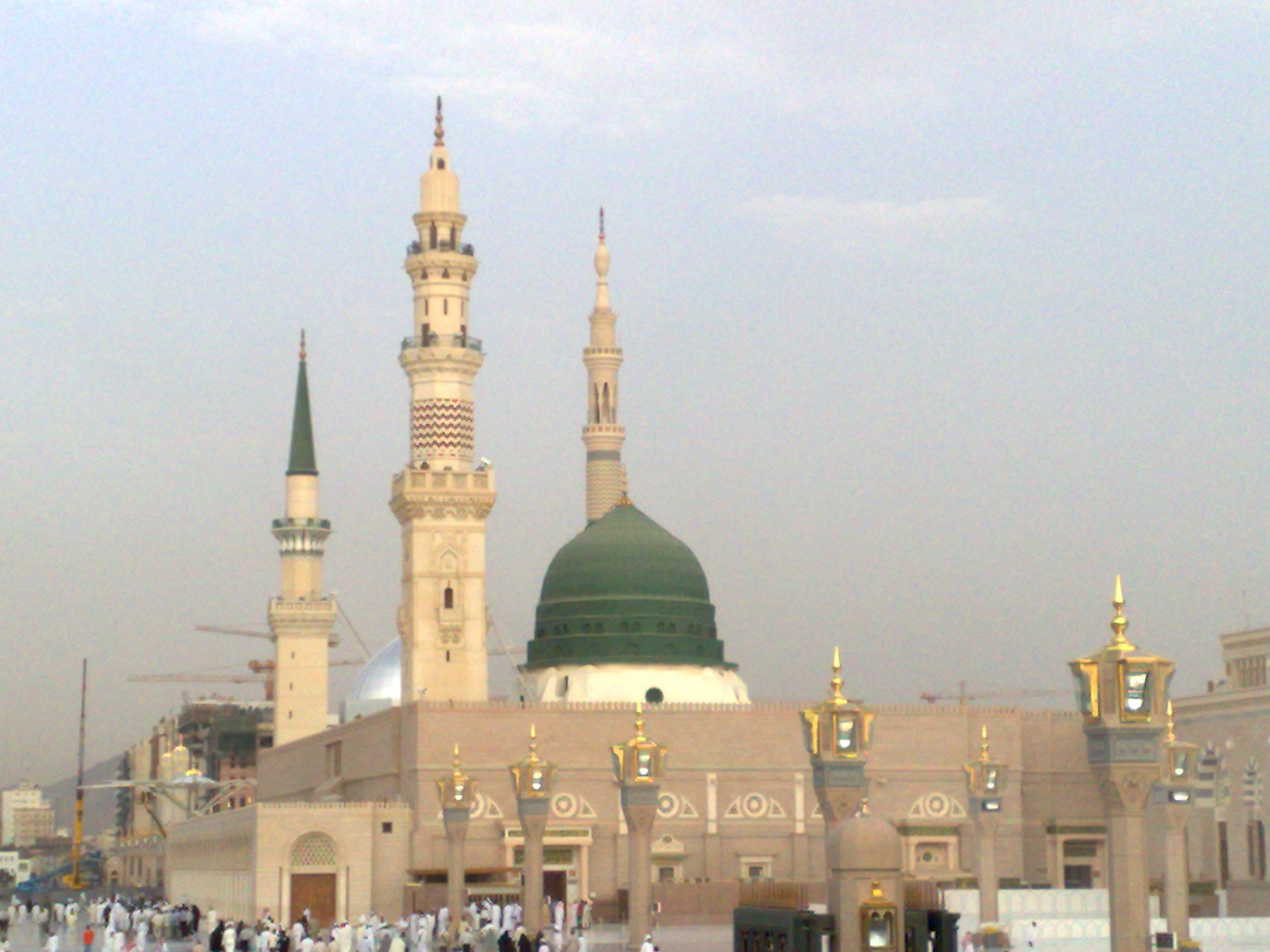 Al-Masjid al-Nabawi in Medina, Saudi Arabia